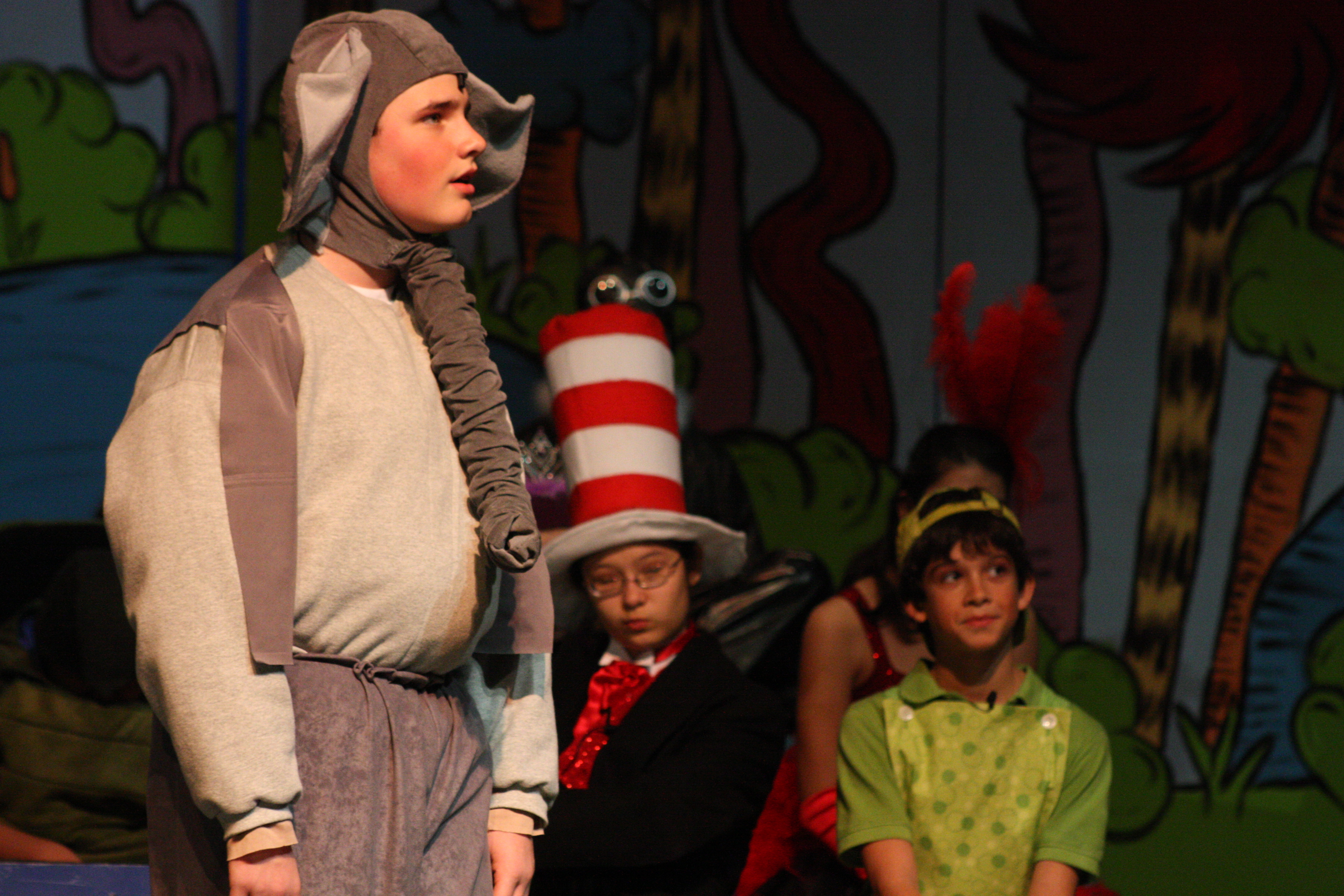 The Bromfield Drama Society 2010 Production of Seussical